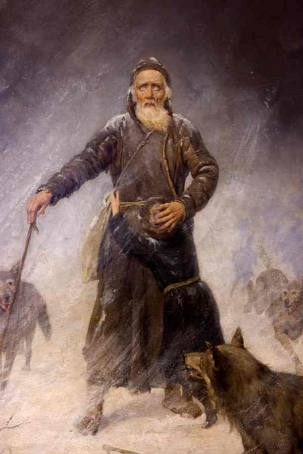 Wenig Paul. 1902